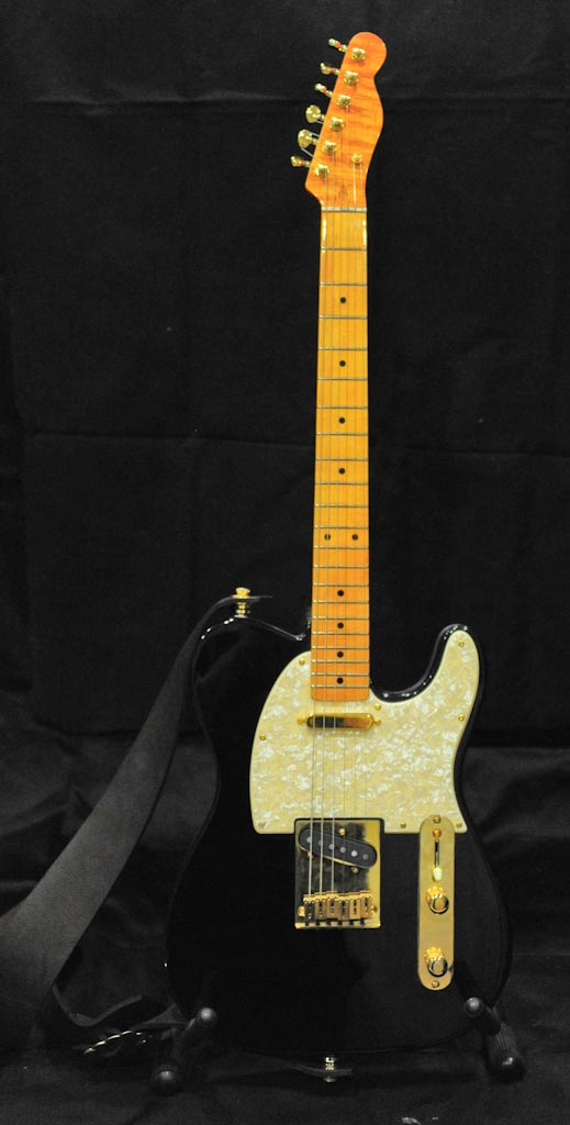 Johannes et Jacobus Telecaster with Bare Knuckles pickups from Flickr album "200907 My Guitars" by John Clift "My current collection of guitars - five of them are self-built"